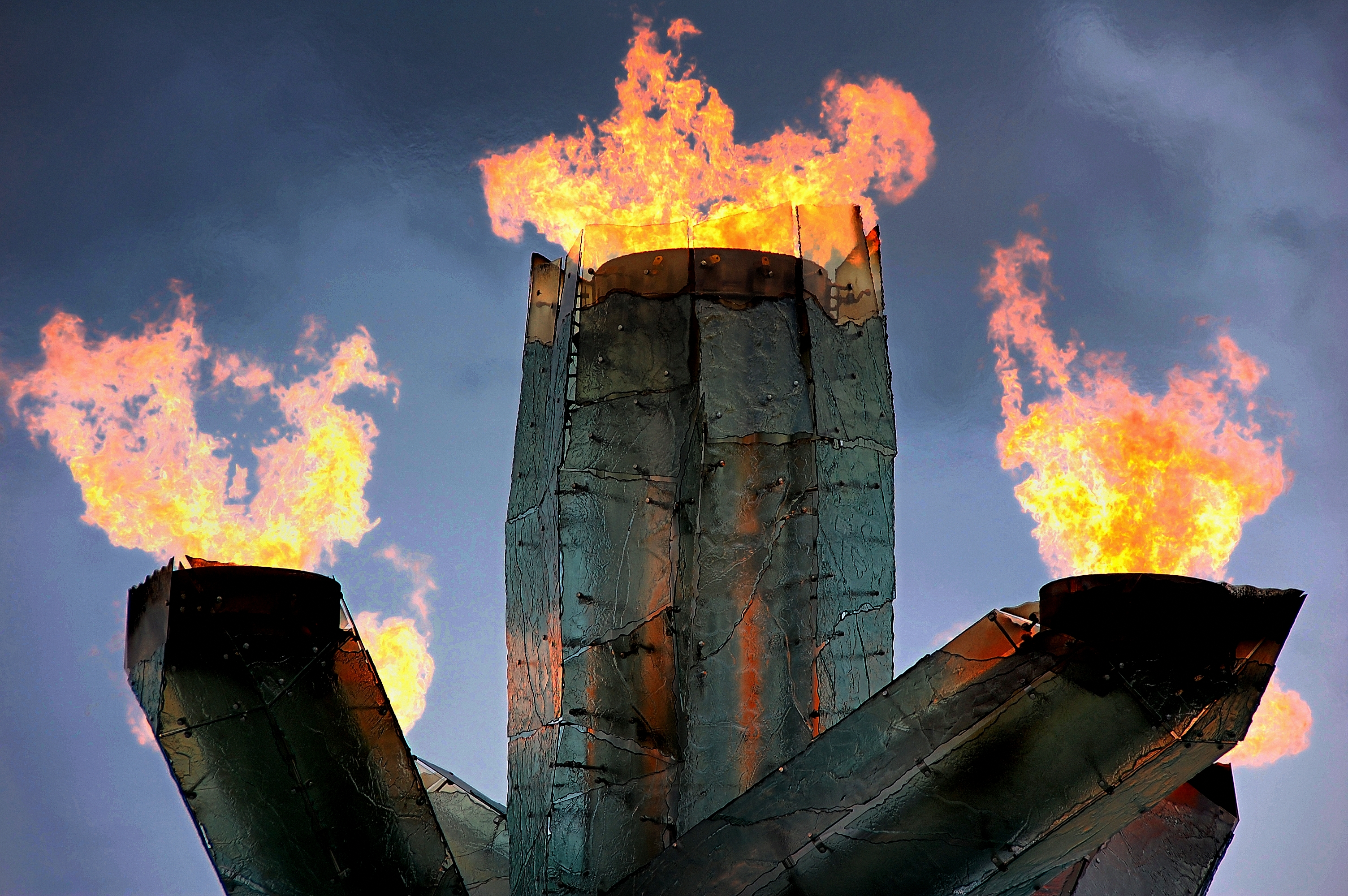 Olympic Torch